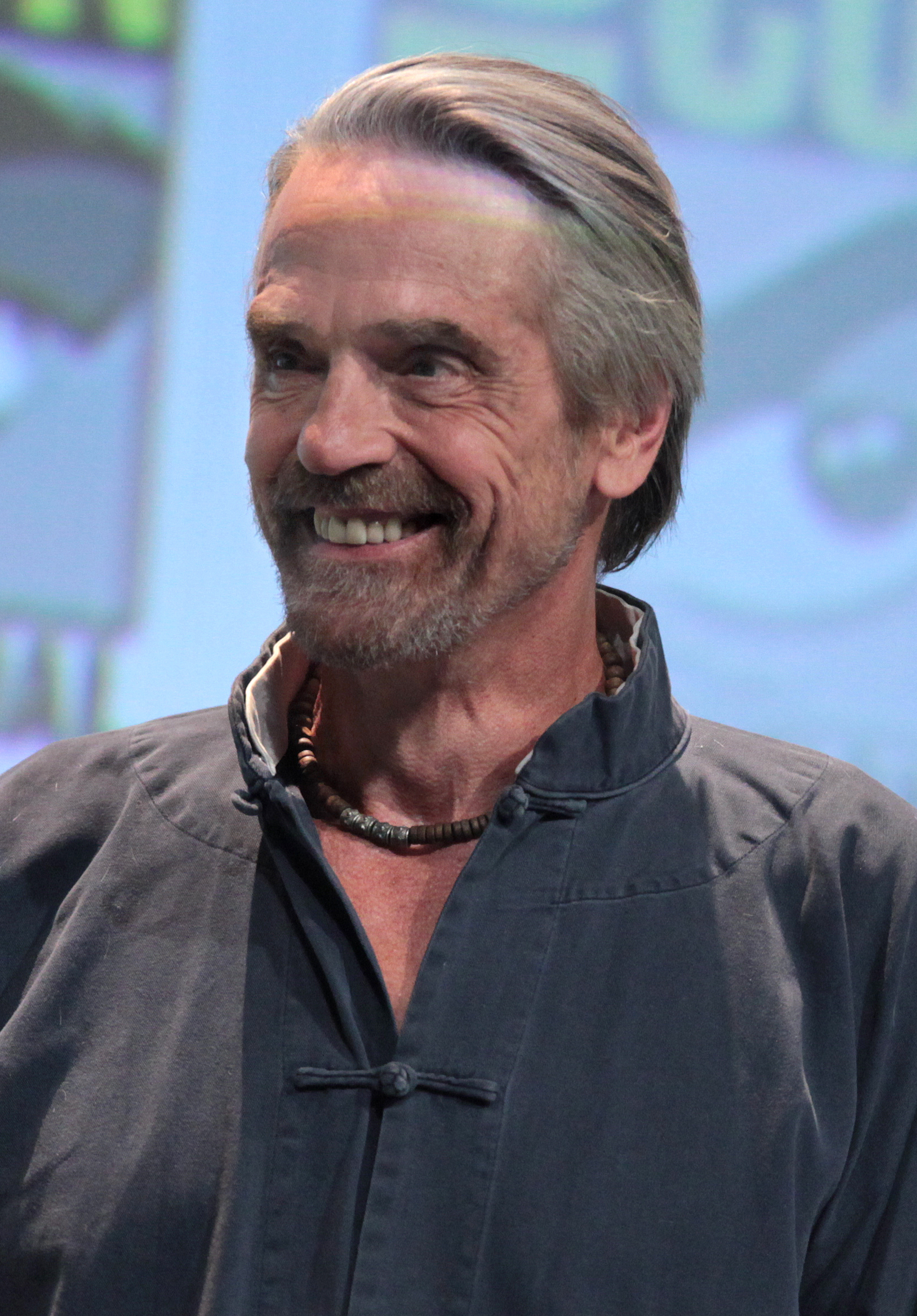 Jeremy Irons speaking at the 2015 San Diego Comic Con International, for "Batman v Superman: Dawn of Justice", at the San Diego Convention Center in San Diego, California.